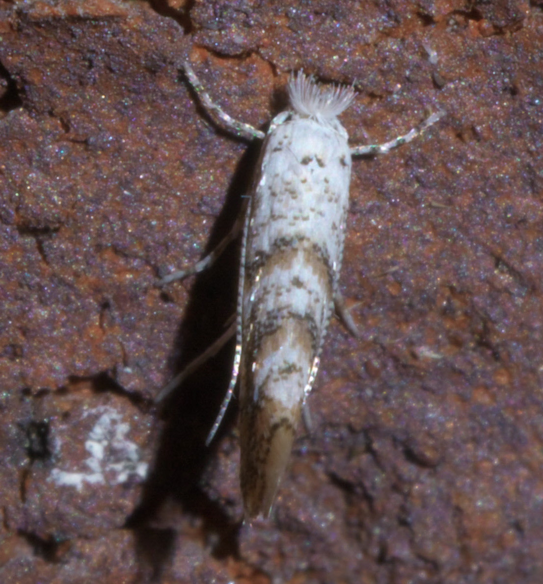 Cameraria hamadryadella, solitary oak leafminer, ID Confidence: 90